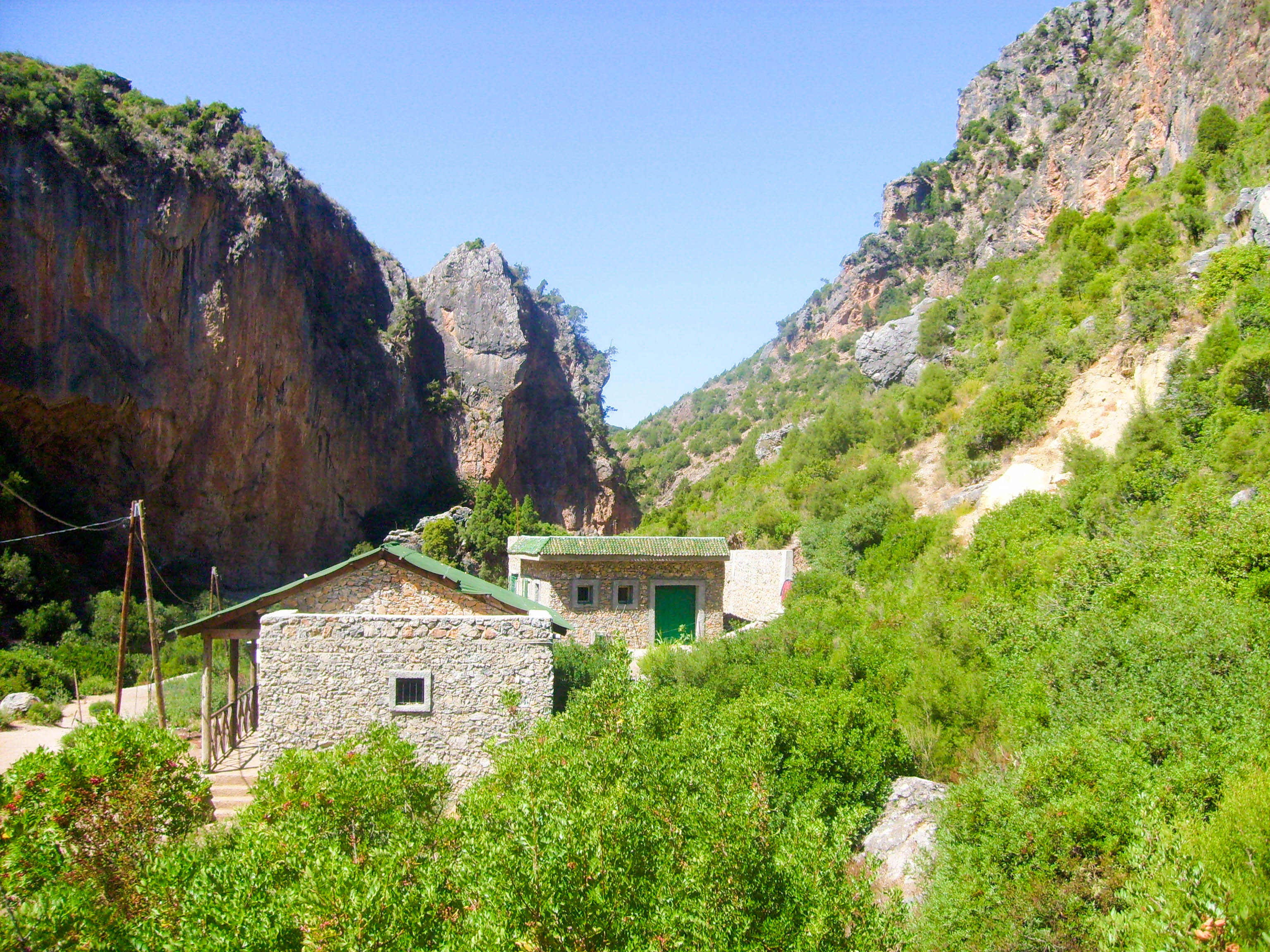 Talambot Camp - National park of Talassemtane